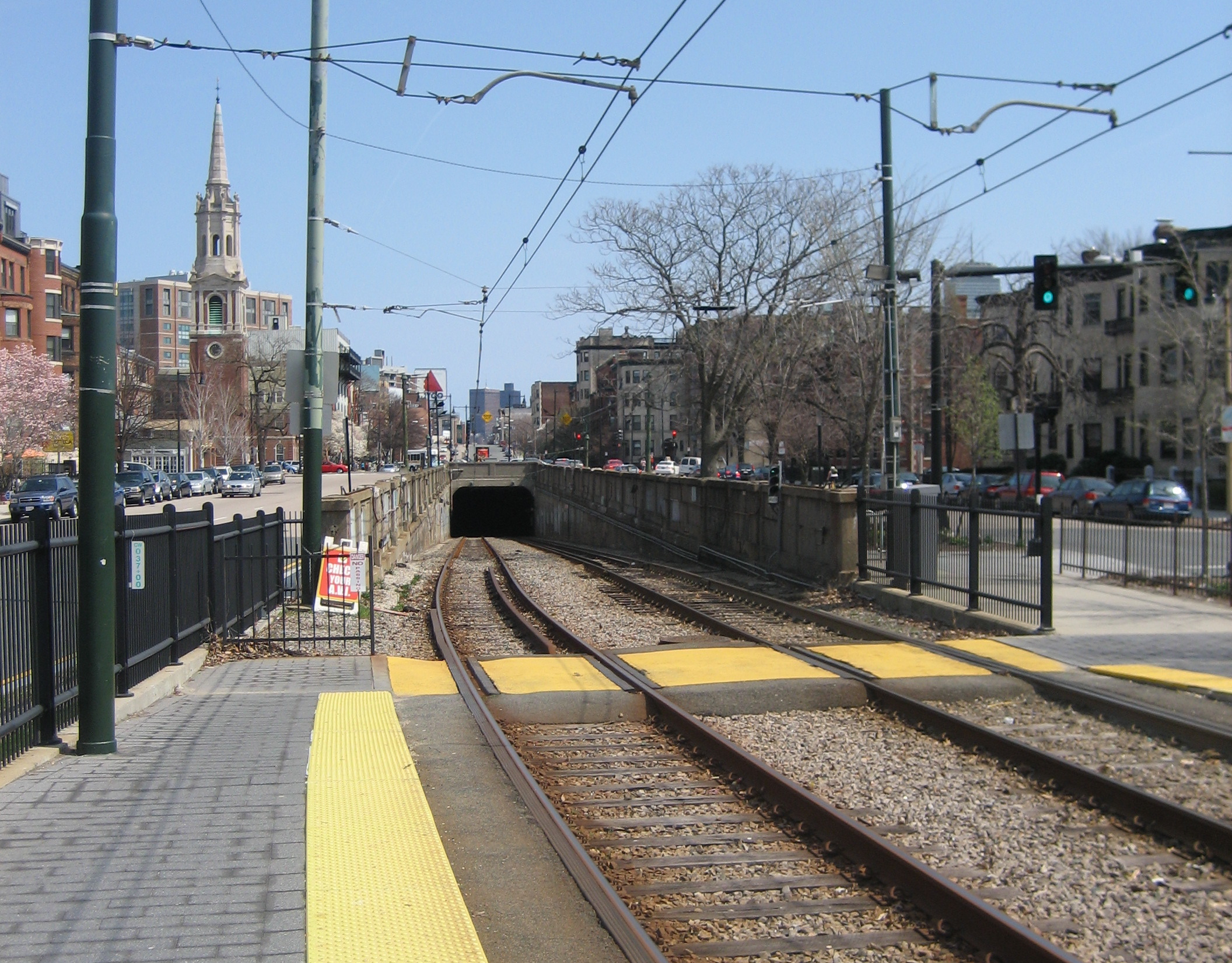 MBTA Green Line C portal entrance at St. Mary's station.